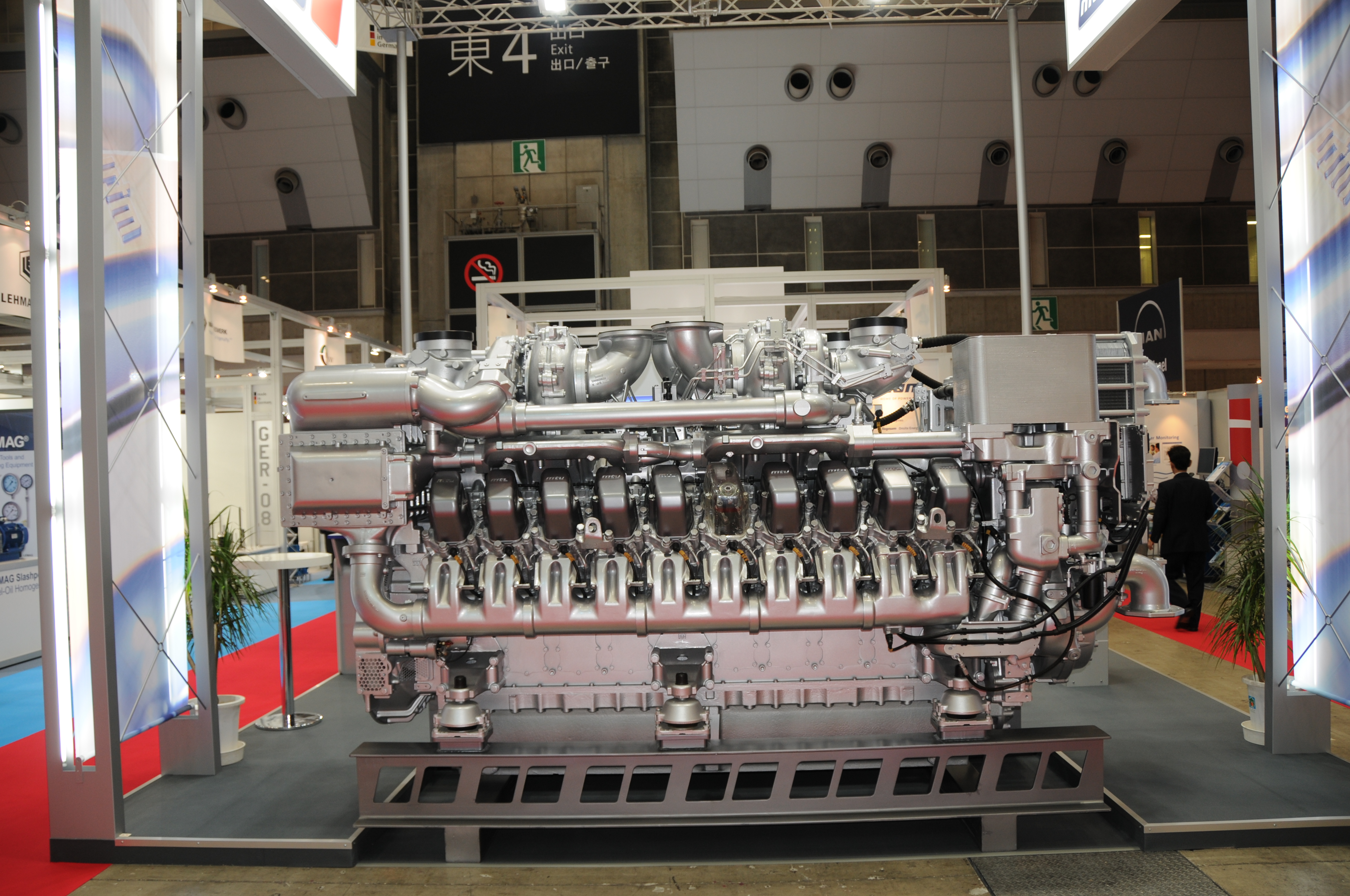 MTU 20V4000M93 engine as shown during the SeaJapan 2008 exhibition in Tokyo. Photo taken by myself. Author:OsakaJo